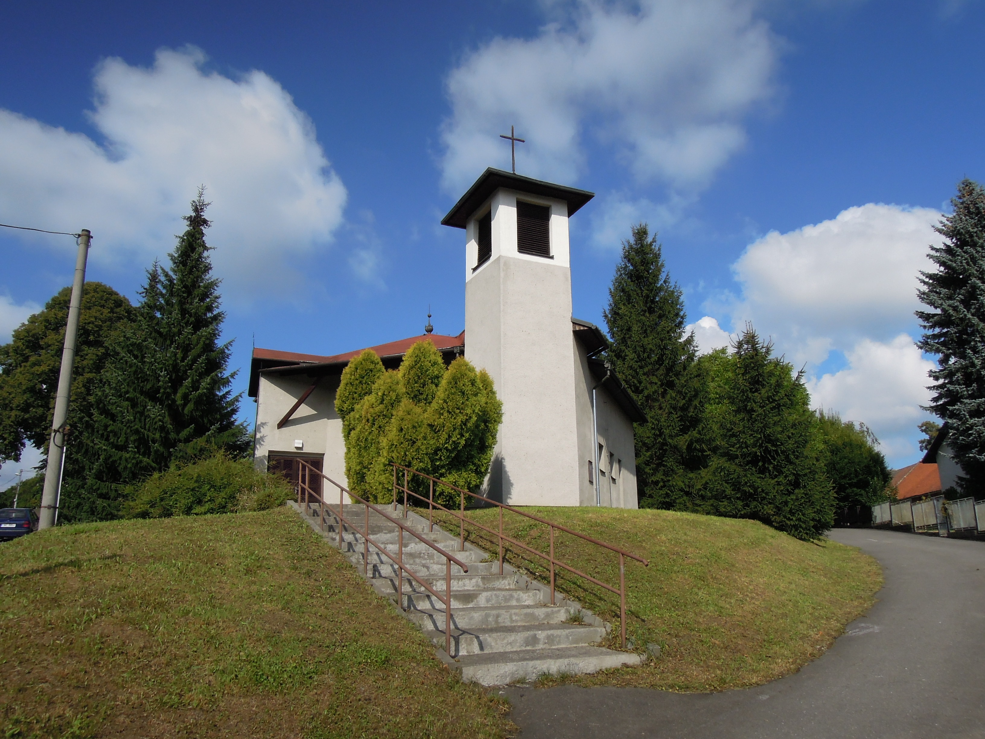 Chapel in Hrachovec, Vsetín District, Zlín Region, Czech Republic